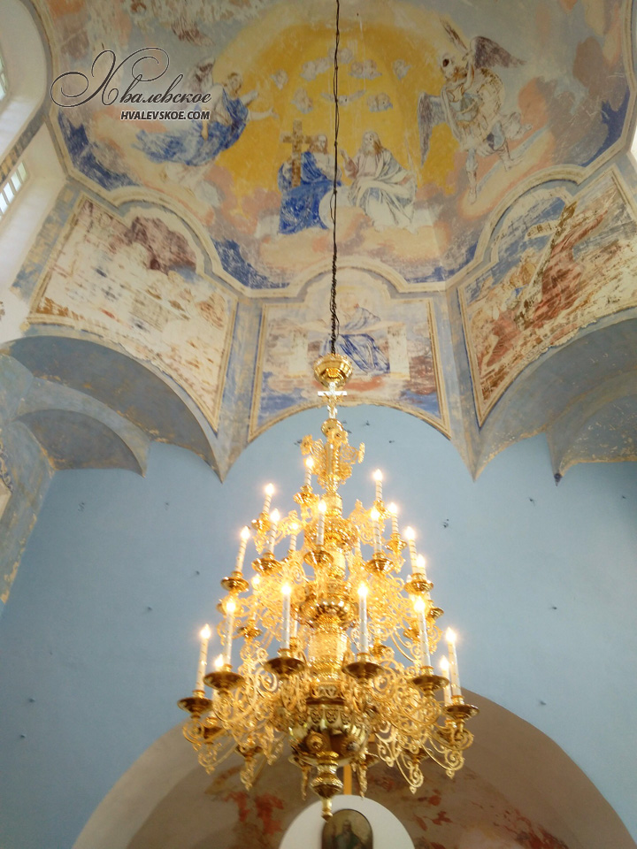 Interior of Pokrova church in Russia